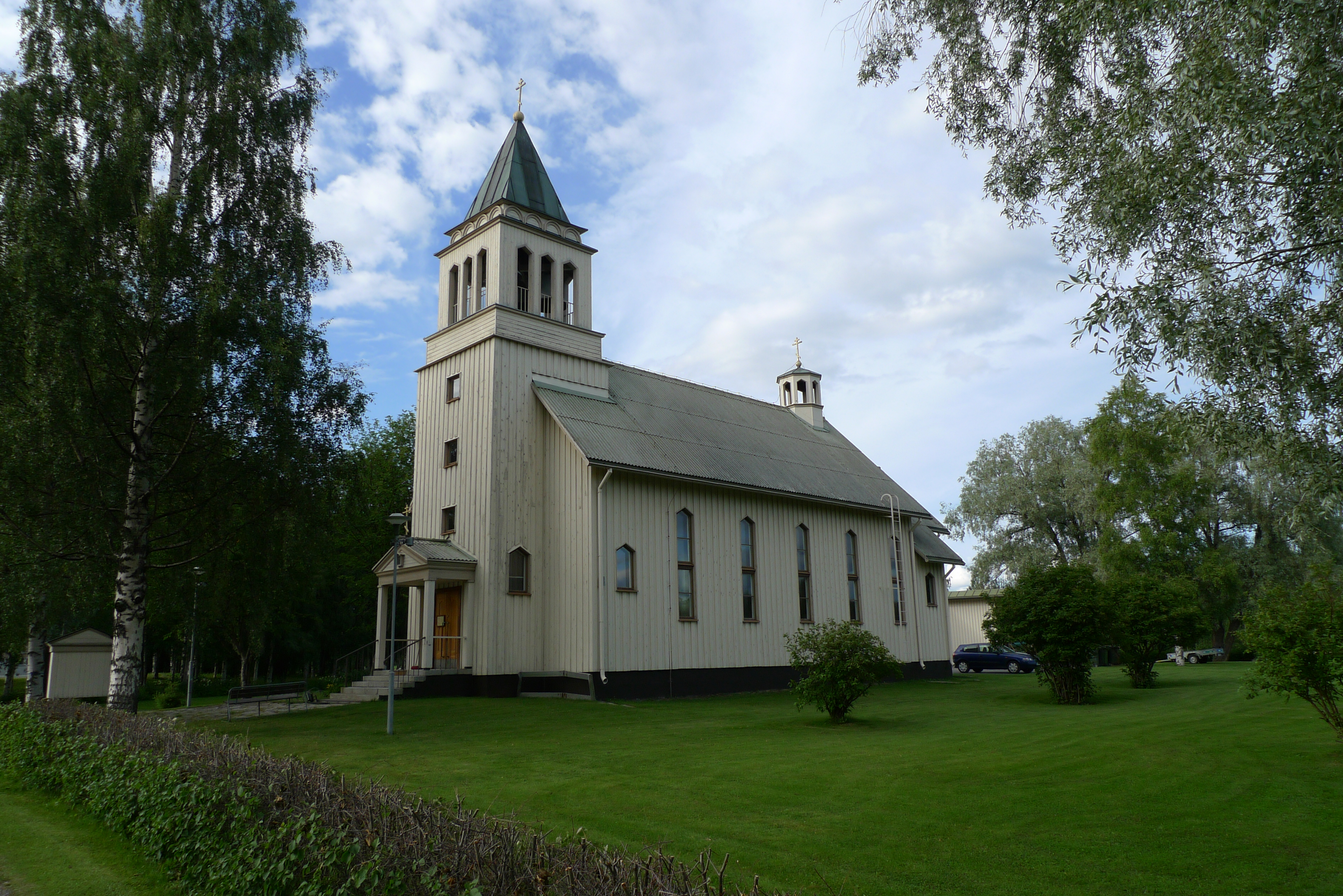 Lieksa Orthodox Church in Lieksa, Finland. Completed in 1960.